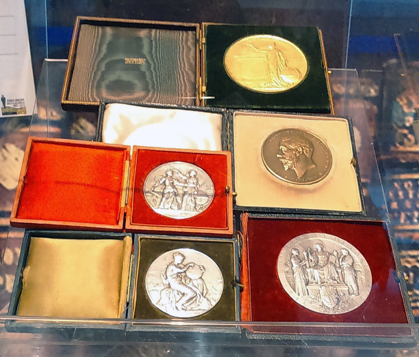 Jovan Cvijić's medals, from the exhibit at SANU Gallery